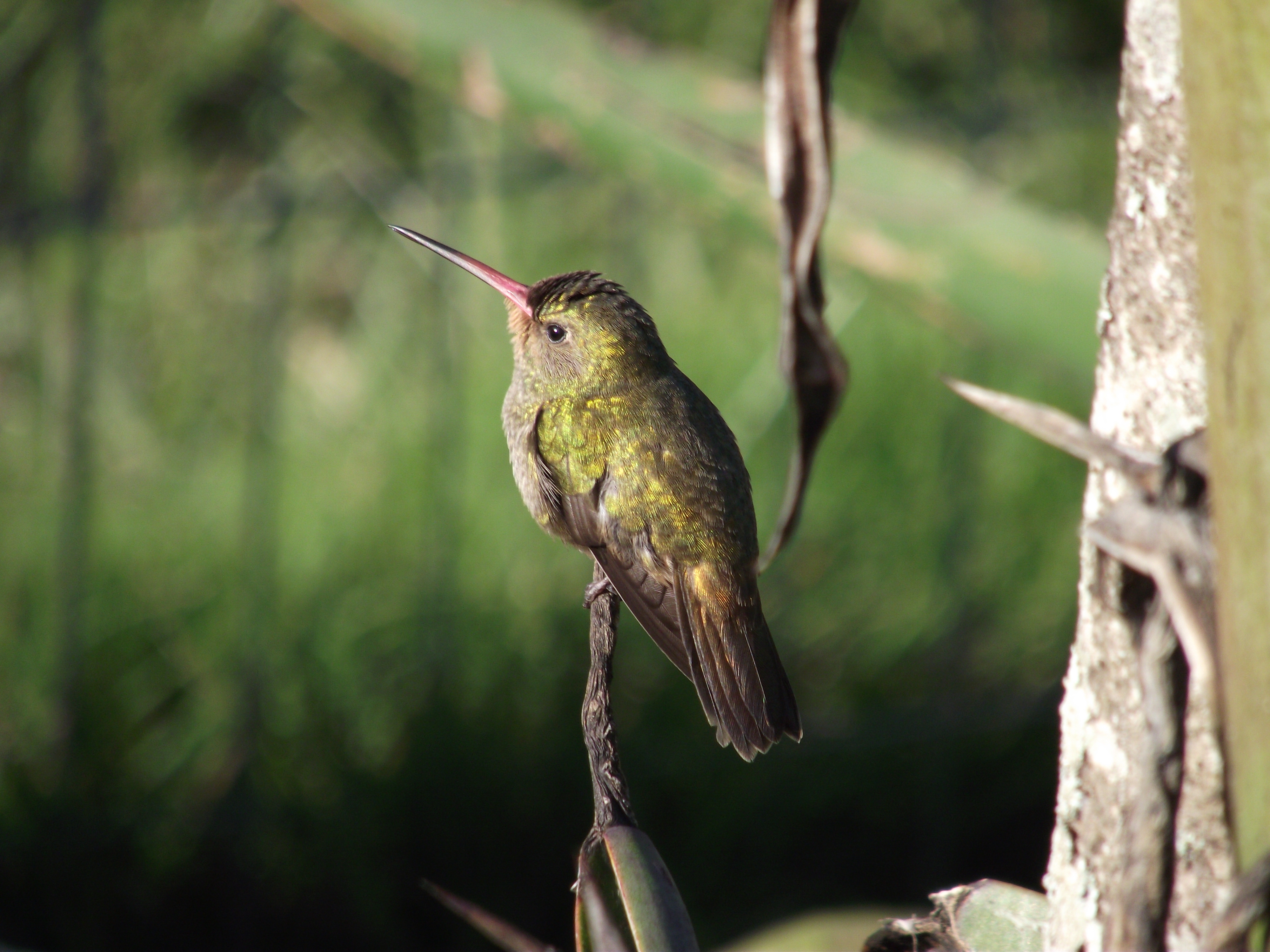 A gilded hummingbird near the Taim Ecological Station (Rio Grande do Sul, Brazil)